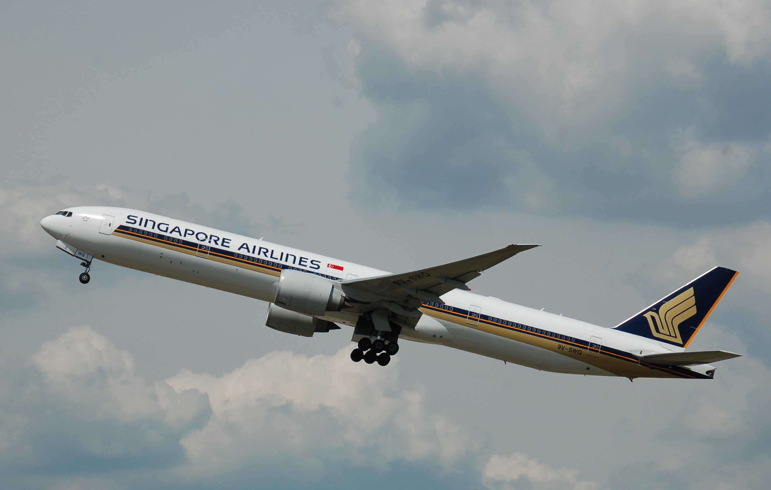 Singapore Airlines Boeing 777-300ER departs London Heathrow Airport, England.